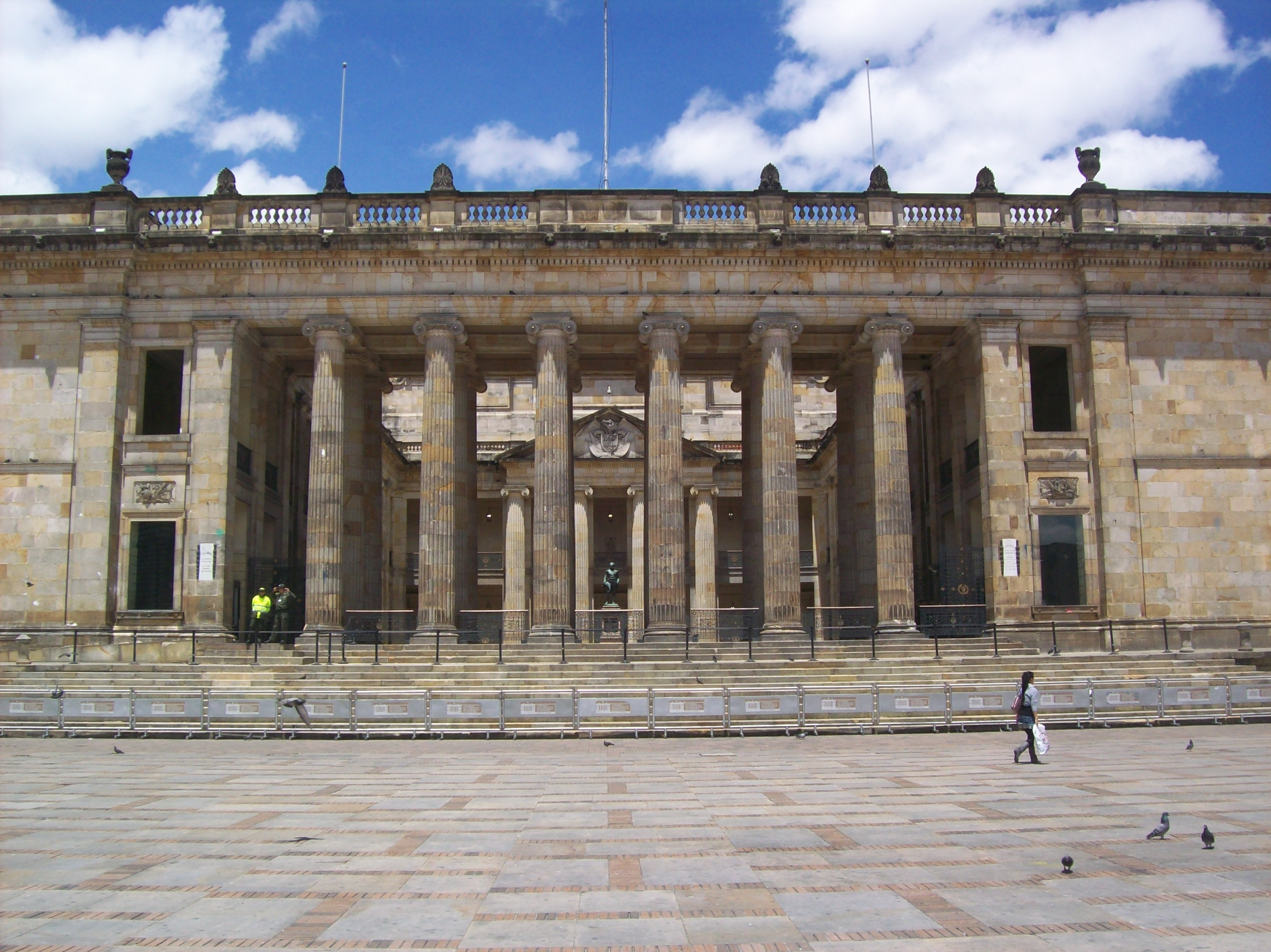 Facade of the Capitolio Nacional de Colombia (Bogotá)